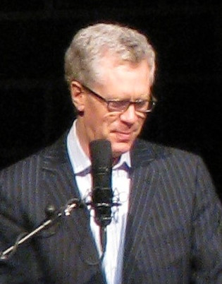 Stuart McLean (born 1948 in Montreal West, Quebec) is a Canadian radio broadcaster, comedian and author, best known as the host of the CBC radio programme The Vinyl Cafe. He is often described as a "story-telling comic", though he has written many serious stories. He is well-known for his very distinctive voice.